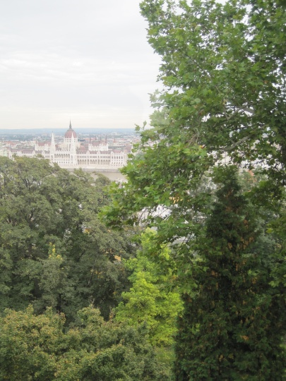 View from the third floor of the Koller Gallery in Budapest